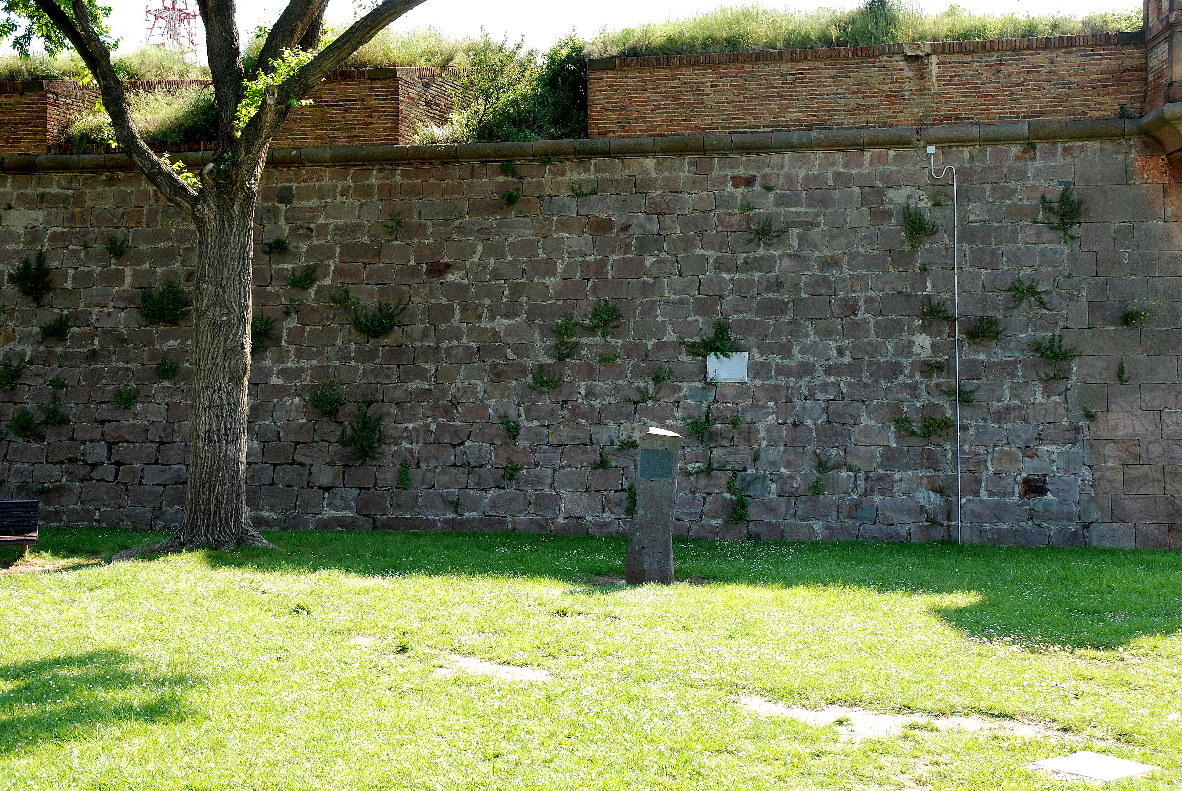 Spot where Lluís Companys was executed - in the moat of the castle of Montjuic, Barcelona, Spain